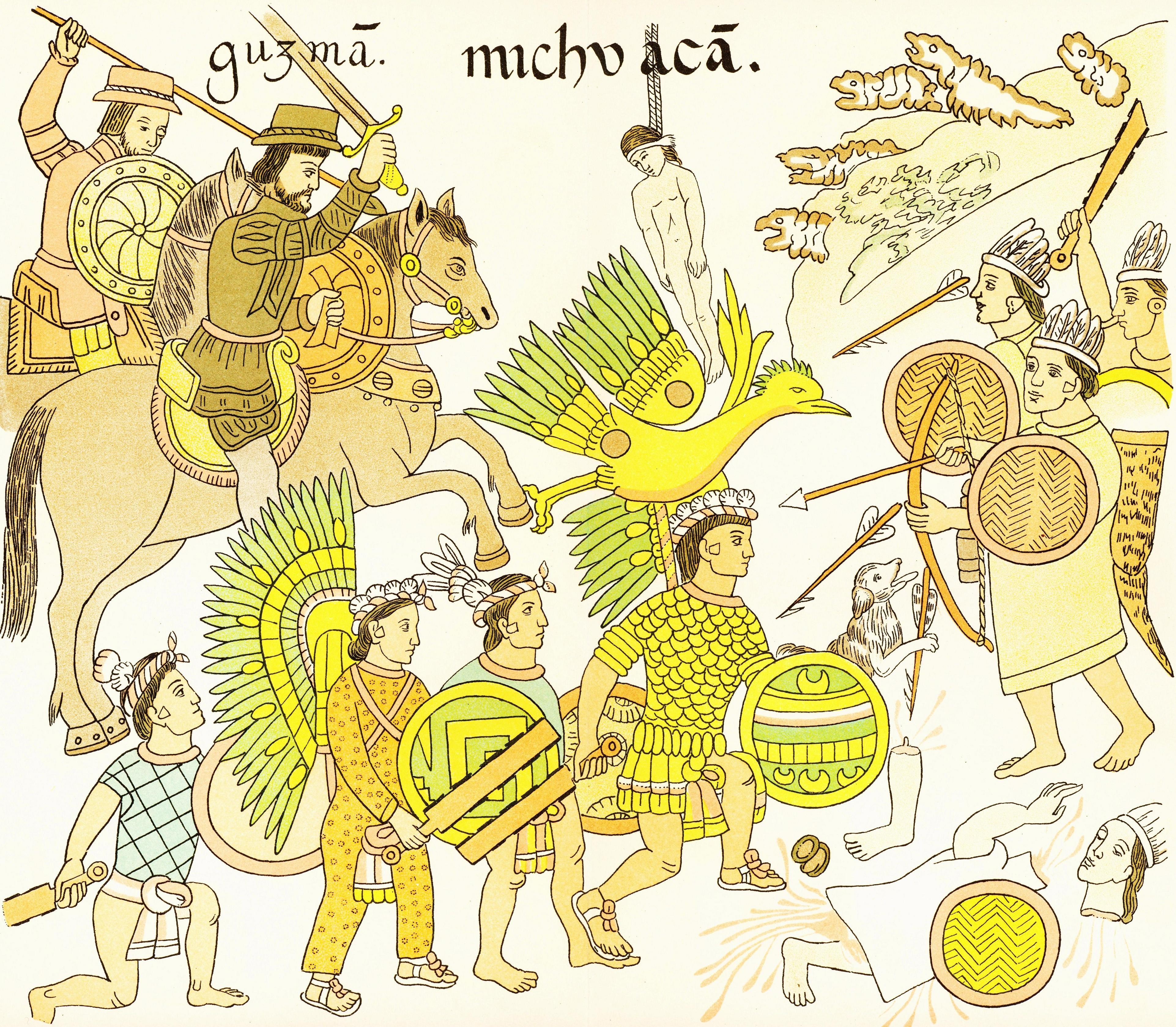 The Native people of Central America, i.e. Mexico as depicted in the Tlaxcalan Cortez facsimile ca. mid 1800’s. The originals are found in the houses of the Tlaxcalans and dates to c. mid 1500’s. This codex was painted by the Aztecs or Texcalans. This particular picture shows Texcalans at Conquest of Michoacan Lienzo. The Aztecs are the ones carrying clubs. They fought other tribes with Nuno Beltran de Guzman (former bodyguard of Spanish Emperor Charles V). Informational Picture added by